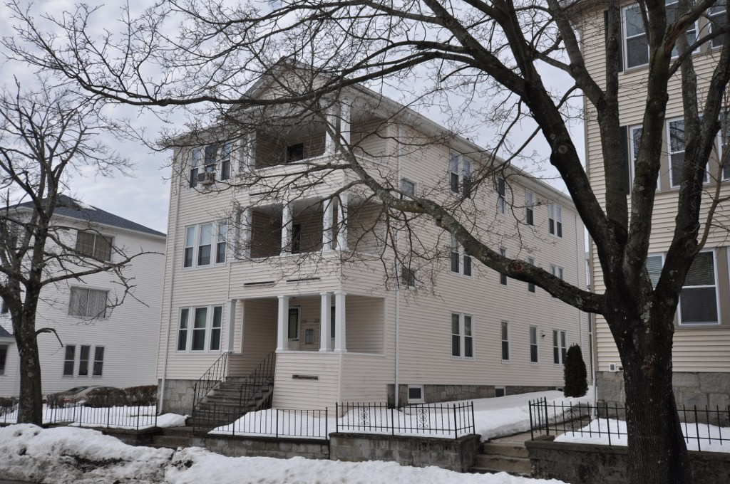 226-228 Ingleside Avenue, Worcester, Massachusetts.